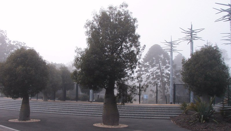 Brachychiton rupestris in morning fog Geelong Botanic Gardens September 2004 Photo: Cas Liber